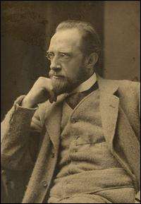 Joseph Holbrooke (c. 1910)